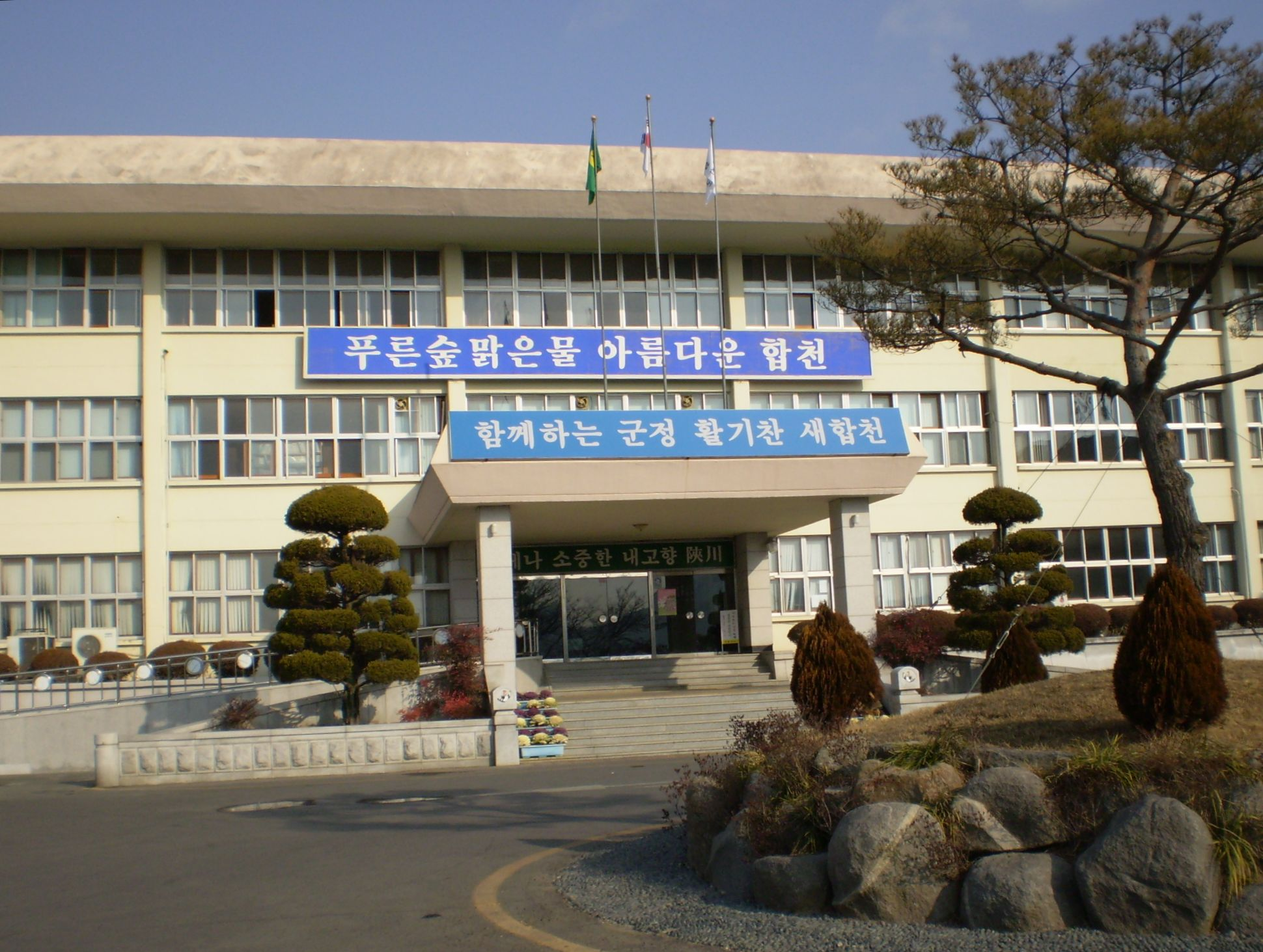 County government building (군청) in Hapcheon, Gyeongsangnam-do, South Korea.